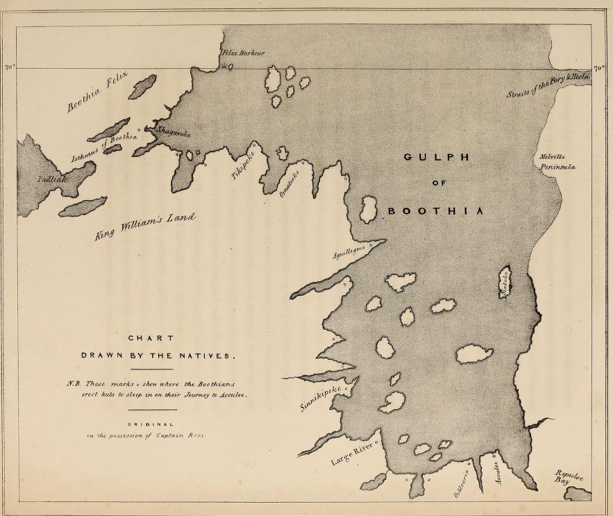 Gulf of Boothia, map drawn by Inuit 1829